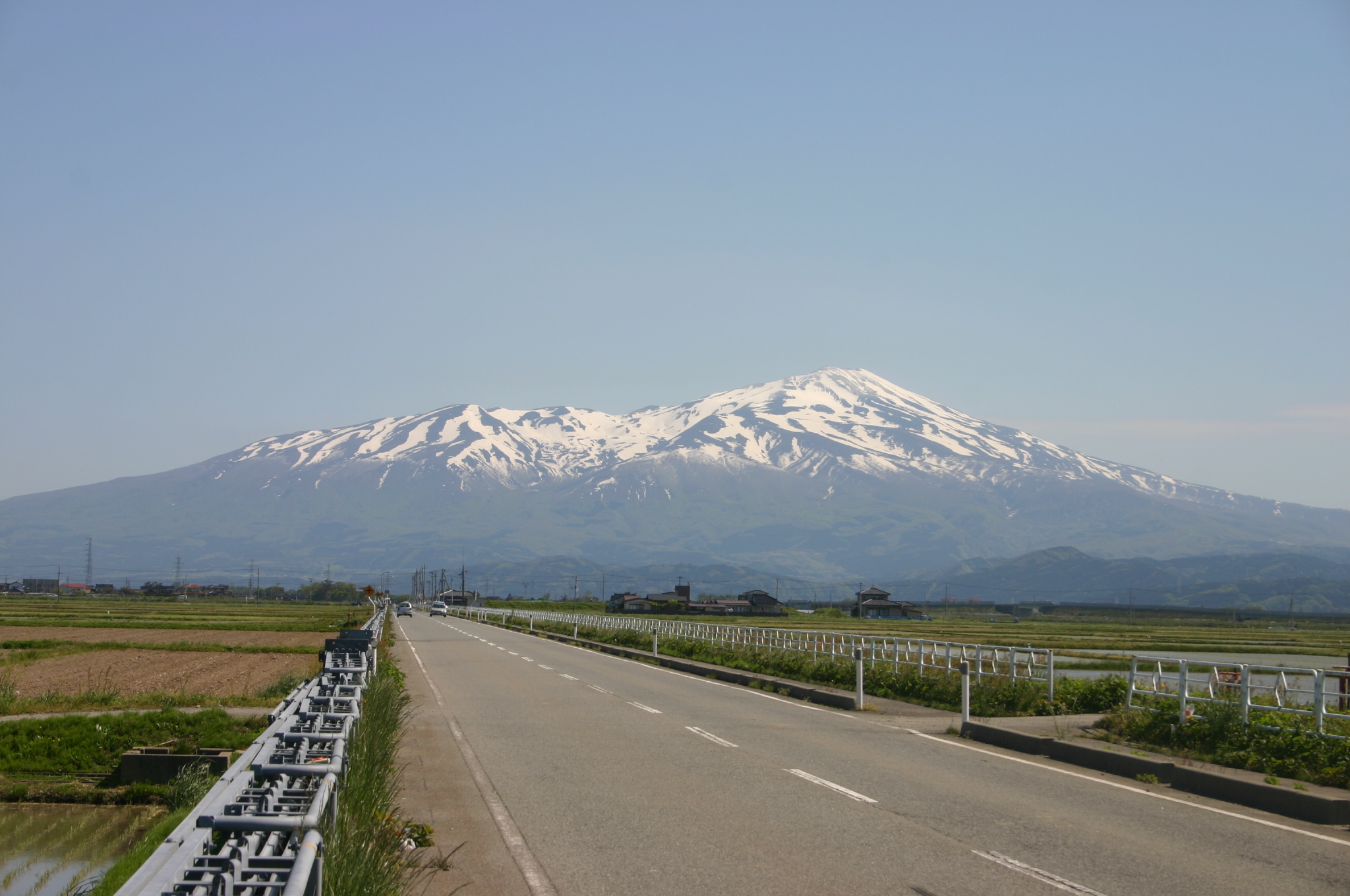 Mount Chokai seen from the SSW.